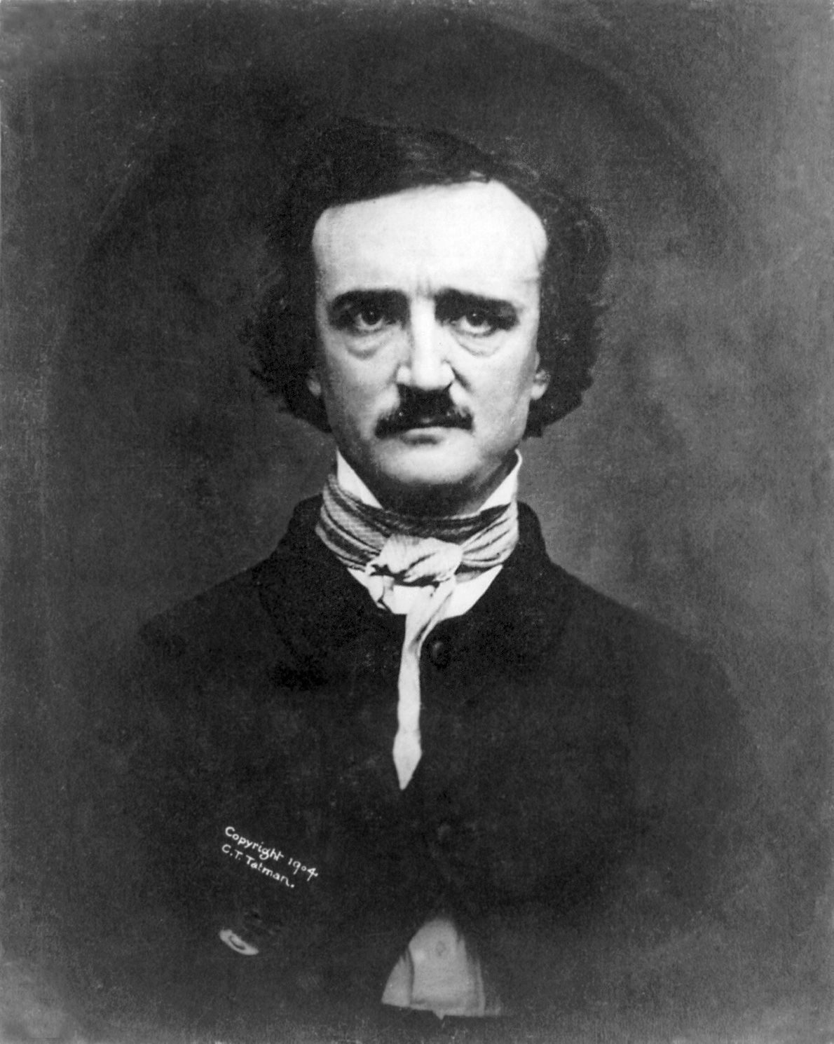 Edit of Image:Edgar Allan Poe 2.jpg to remove dust, scratches. Slight contrast adjustment. en: Daguerreotype of Edgar Allan Poe 1848, first published 1880. Taken by W.S. Hartshorn, Providence, Rhode Island, November, 1848.